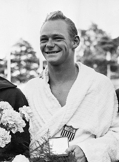 1952 Press Photo David Browning, Miller Anderson, Bobby Clothworthy Olympic Wins